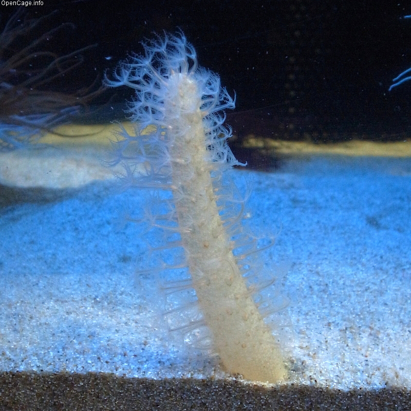 Cavernularia obesa Valenciennes in Milne Edwards&Haime, 1850. Suma Aquapark, Japón